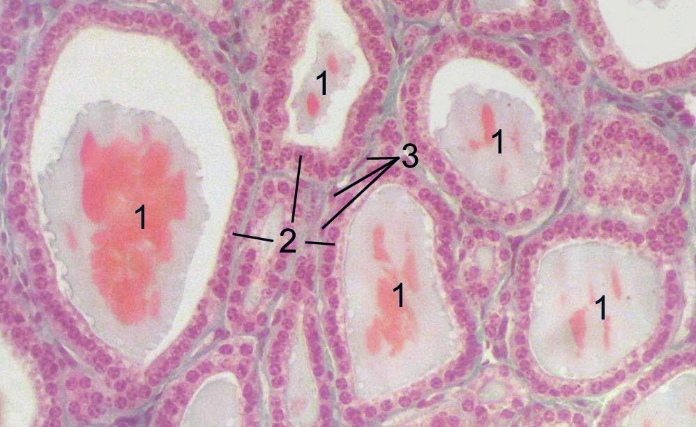 Histological section through the thyroid of a horse. 1 follicles, 2 follicular epithelial cells, 3 endothelial cells